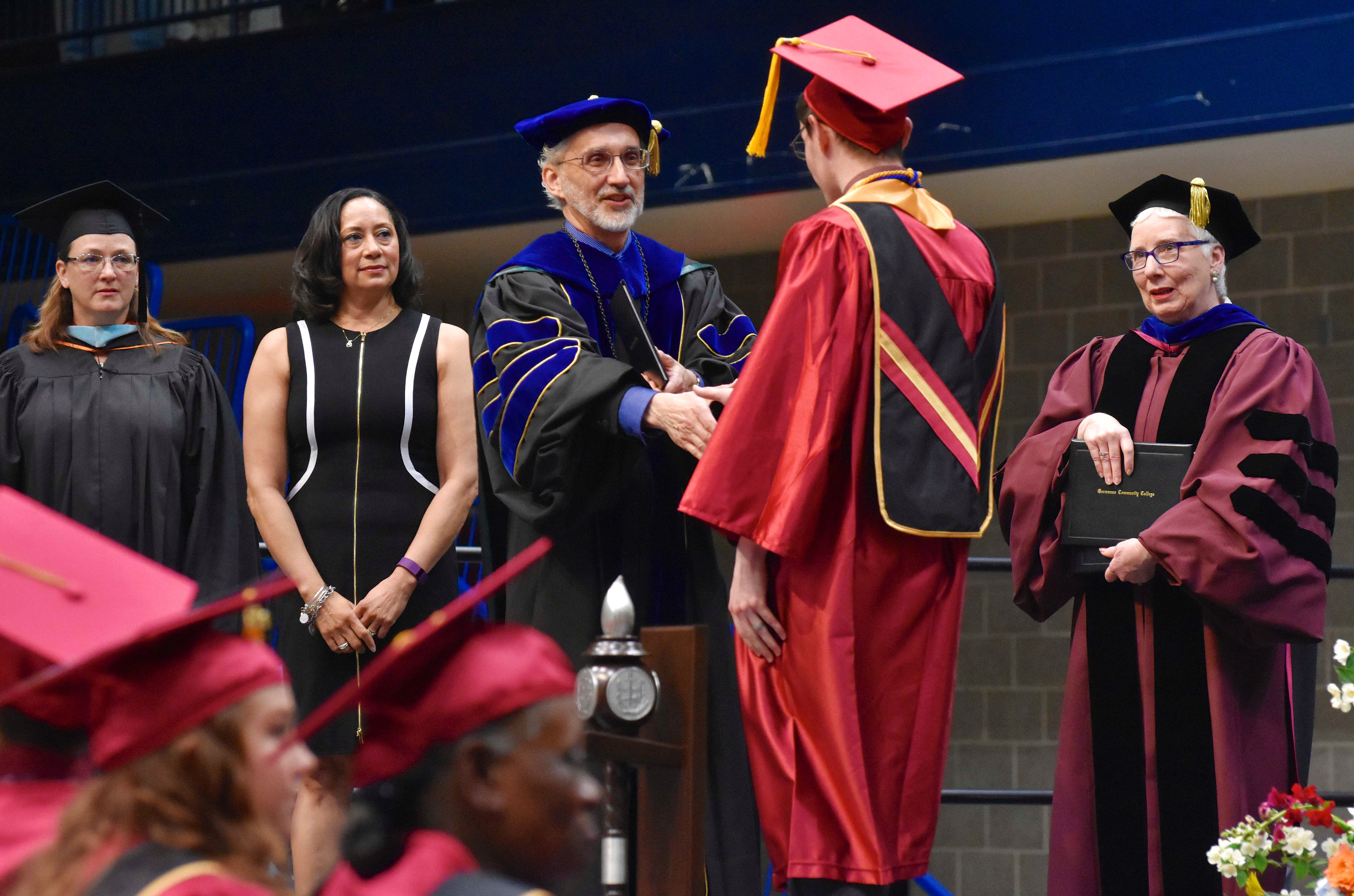 Germanna Community College held its Spring Commencement Exercise at the Anderson Center at the University of Mary Washington in Fredericksburg, Va. on on Thursday afternoon, May 12, 2016. (Photo by Robert A. Martin)